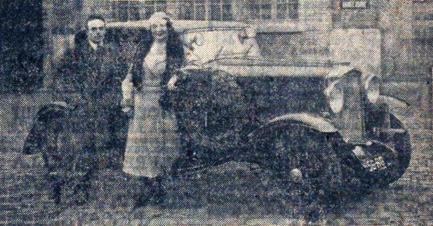 Entry #15 in the 1933 Rallye Monte Carlo was a Salmson S4C 1,495ccm driven by Germaine Rouault and co-driver Quilin (probably Julio Quinlin). They had startedin Tallinn,[1] and ended 3rd place overall and won the under-1500 ccm class.[2]